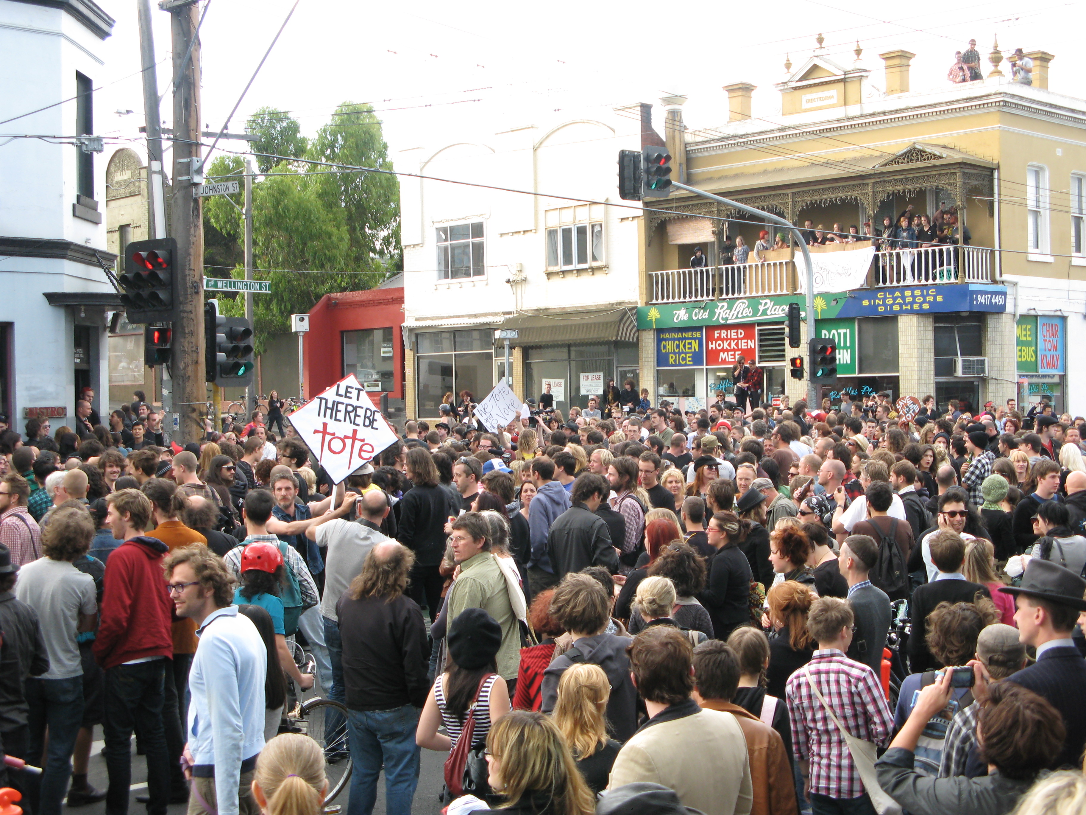 The intersection of Johnston Street and Wellington Street during the rally on January 17, 2010, Collingwood, Melbourne, Victoria, Australia. Photo taken by Nick carson in January 2010.